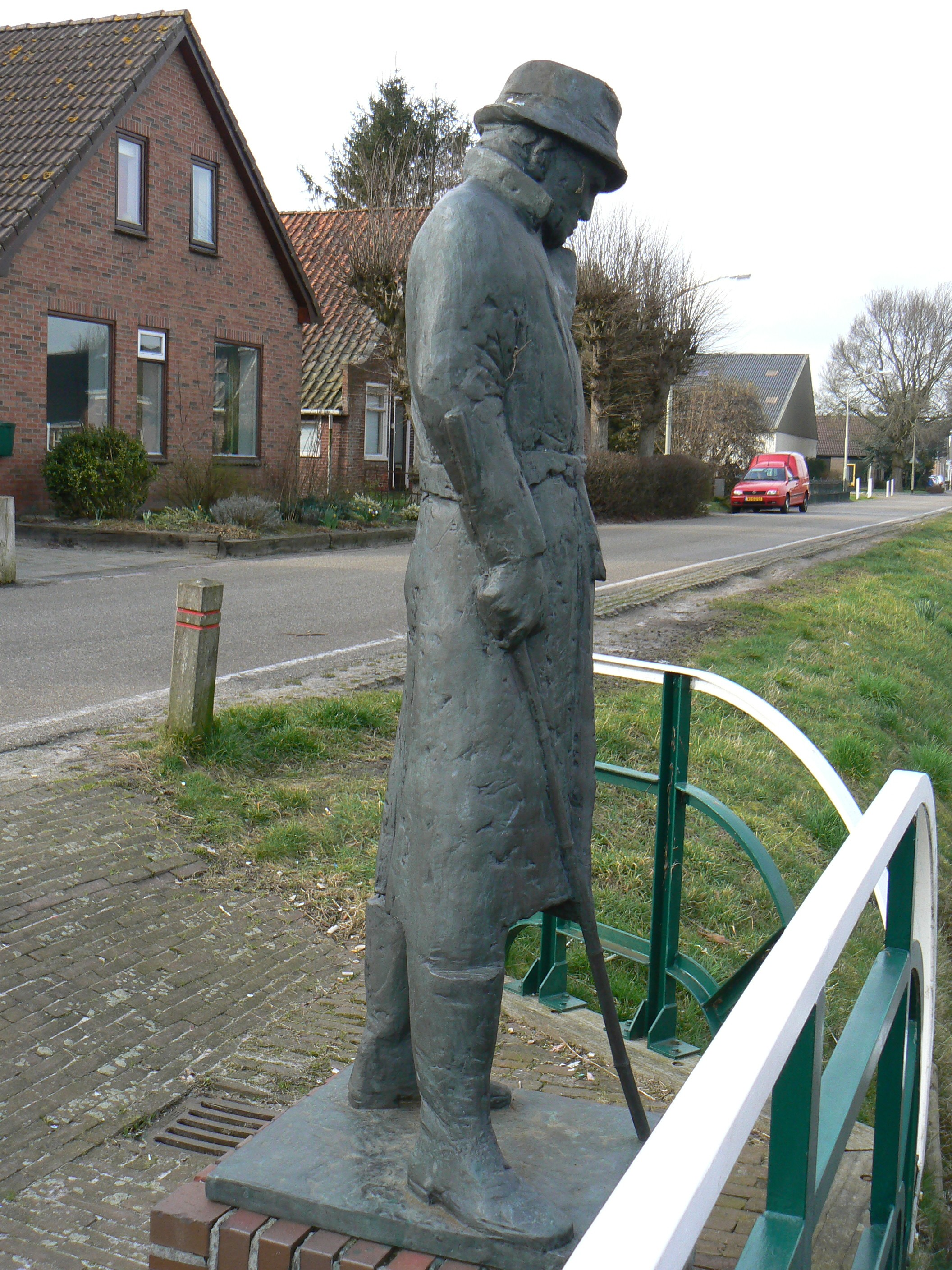 sculpture Vissende Man (1989) by Gosse Dam in Kiel-Windeweer/The Netherlands